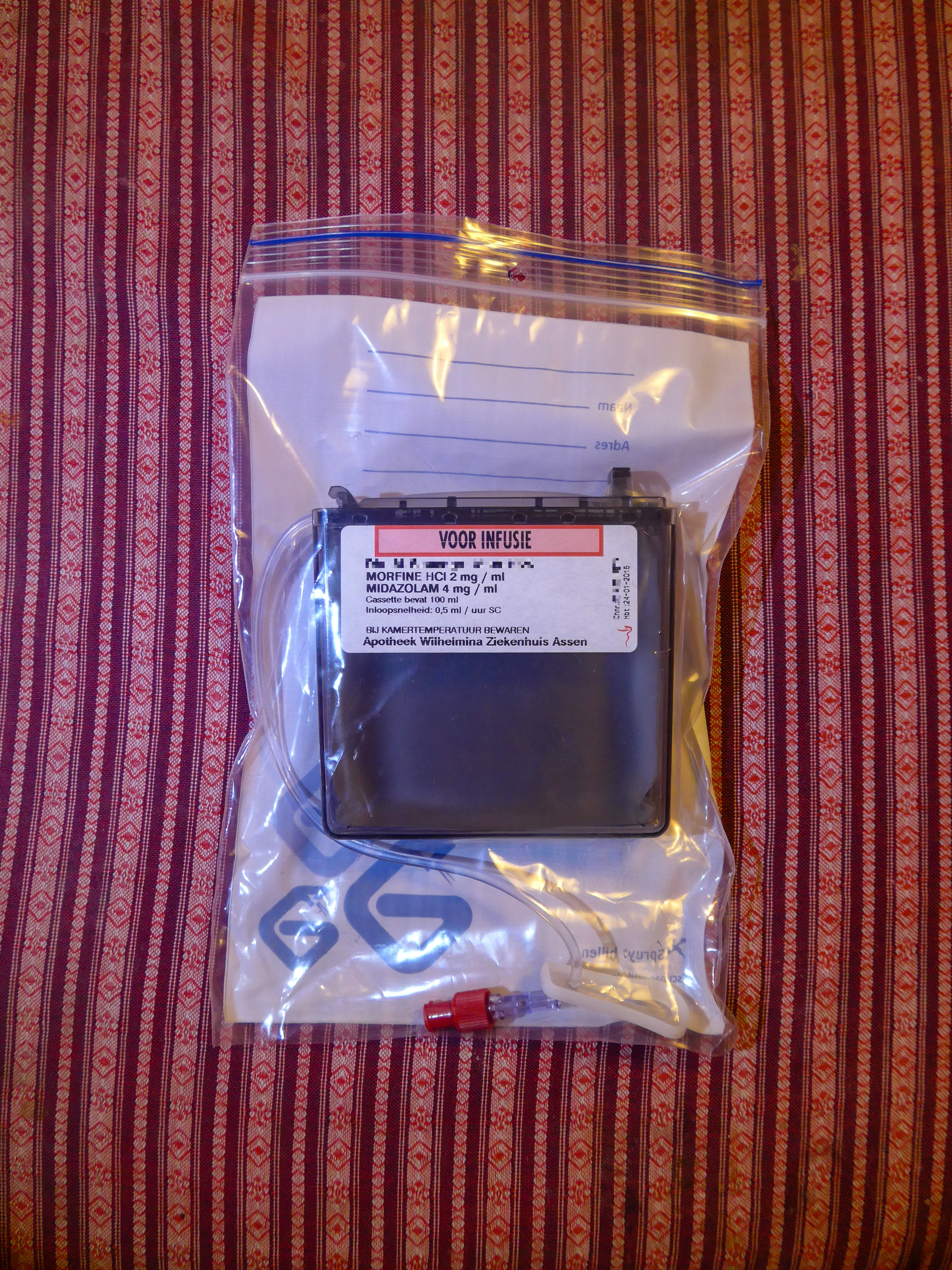 Infusion pump reservoir containing midazolam and morphine, used for the palliative sedation of a terminal cancer patient.